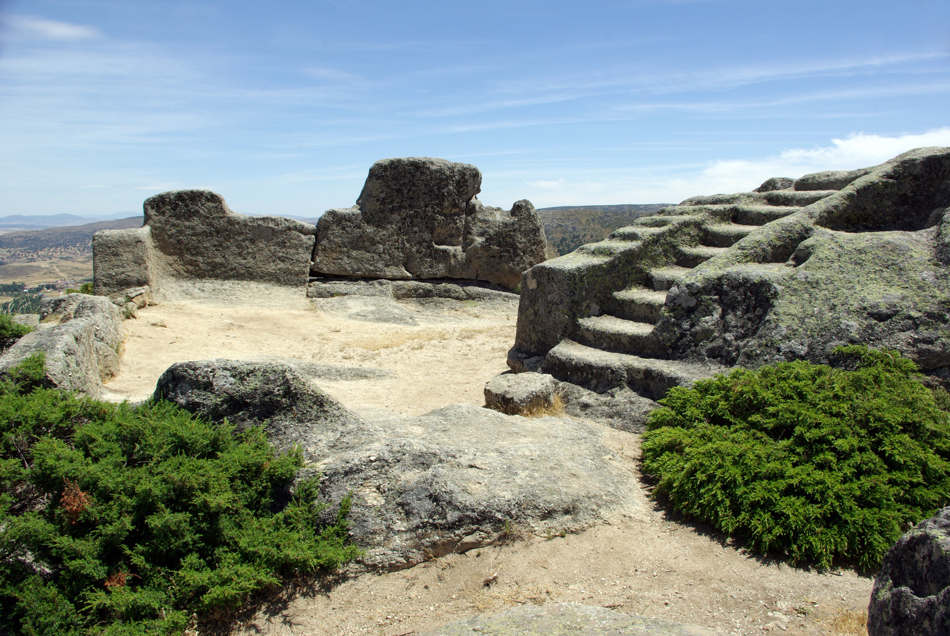 Ulaca sanctuary. Villaviciosa (Solosancho, Ávila, Spain)